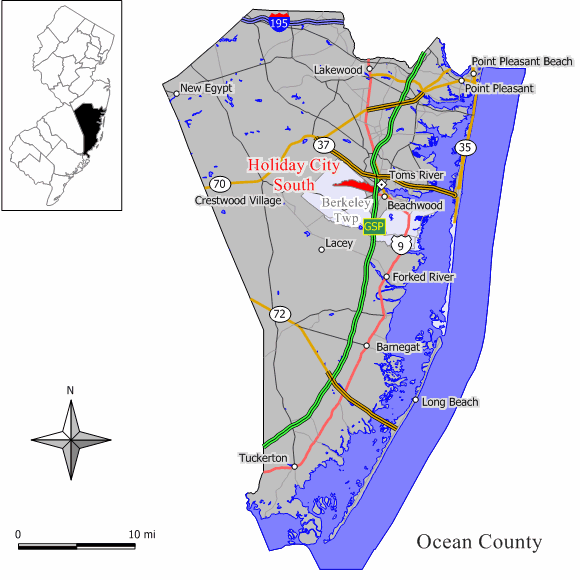 Source: Jim Irwin Original work by Jim Irwin, December 2005.